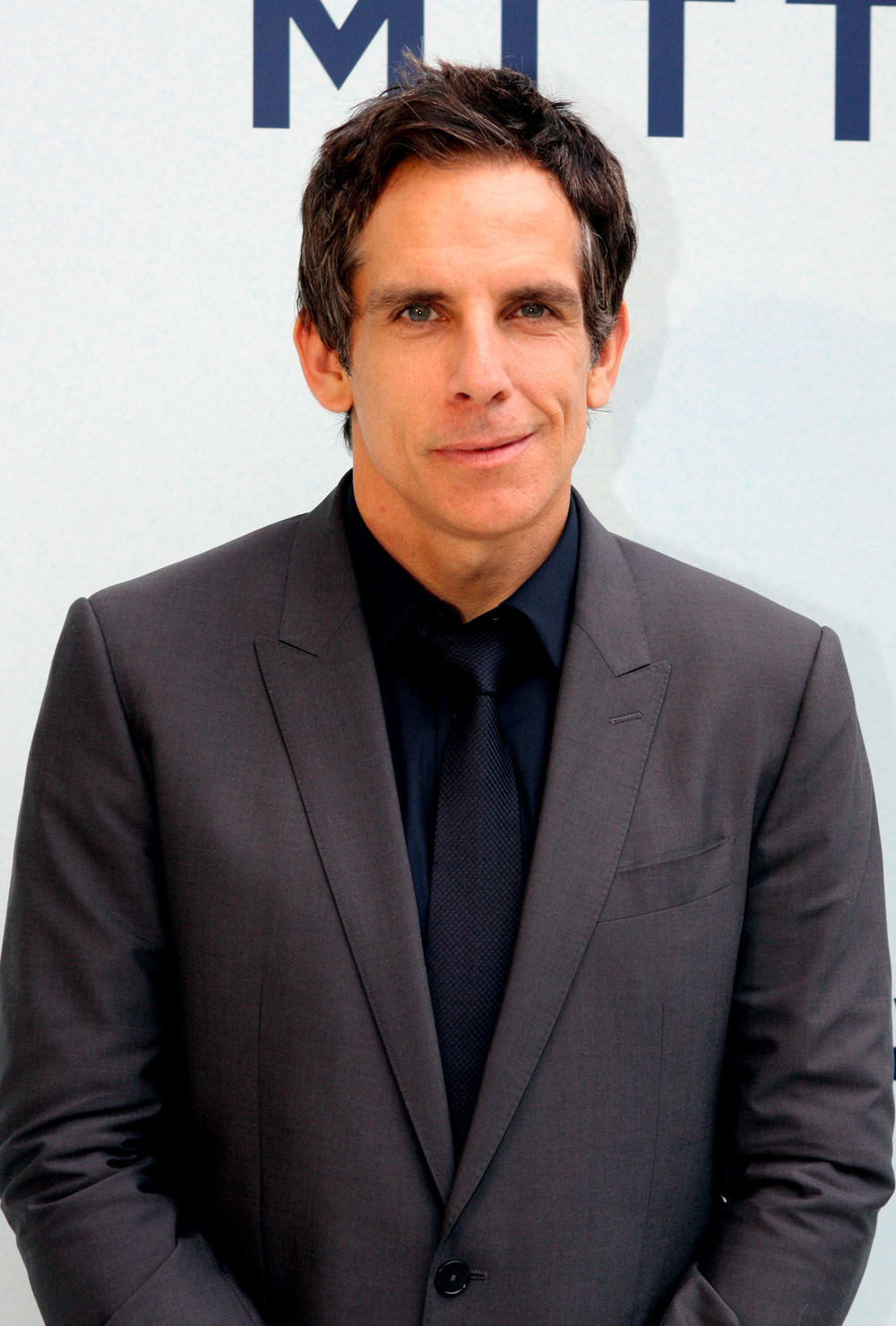 The Secret Life Of Walter Mitty Premiere in Sydney, Australia